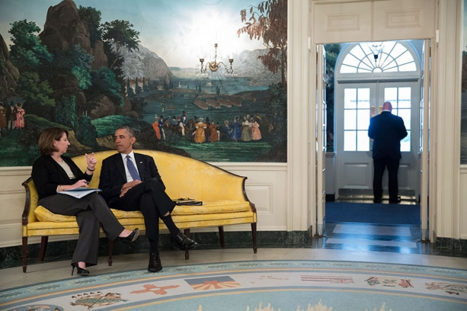 United States President Barack Obama is briefed by Lisa Monaco, Assistant to the President for Homeland Security and Counterterrorism, on the investigation of the 15 April 2013 bombings in Boston, in the Diplomatic Reception Room, before leaving the White House for Boston on 18 April 2013.